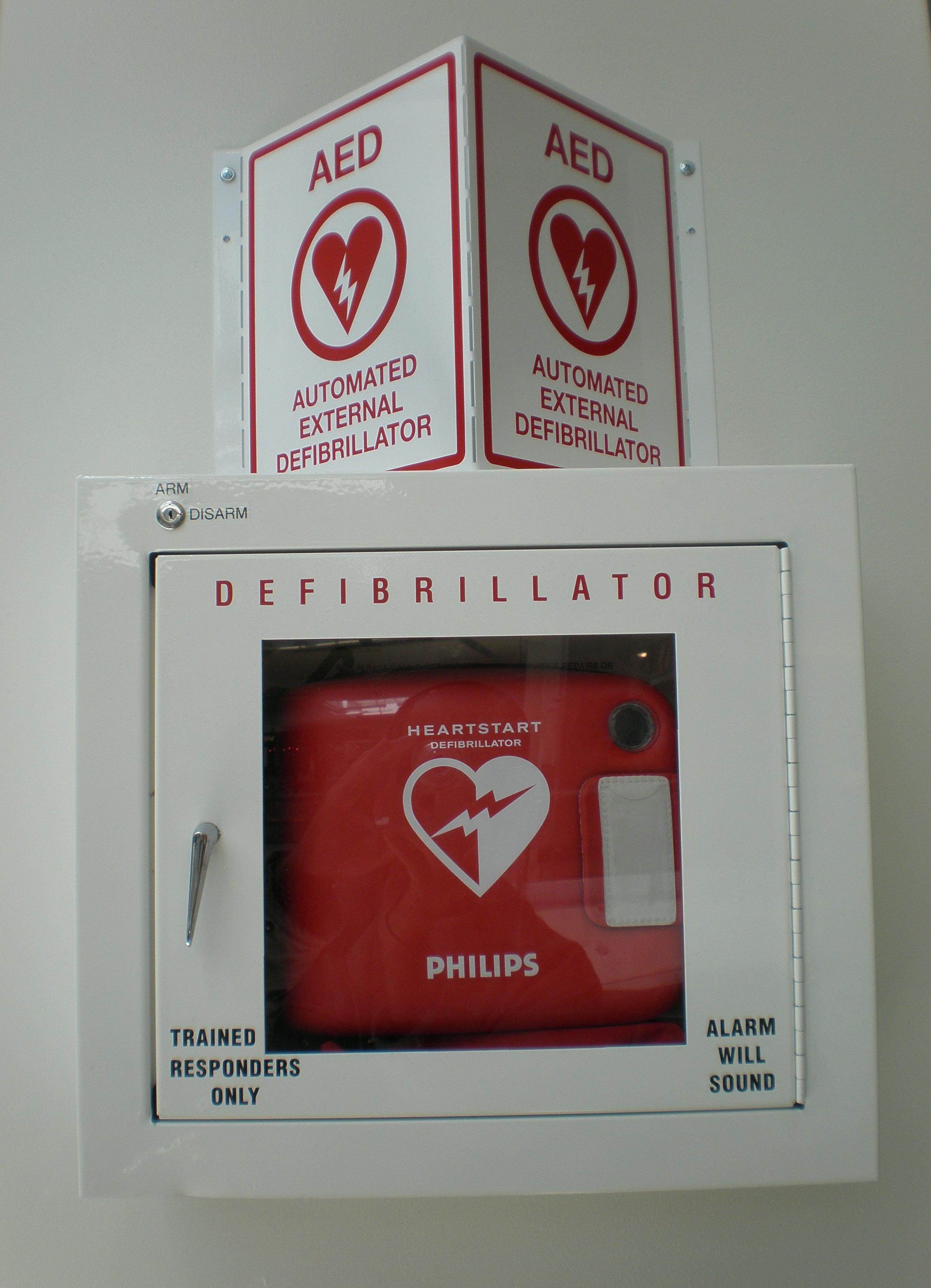 A Philips Automated External Defibrillator in The Shops at Tanforan mall in San Bruno, California.